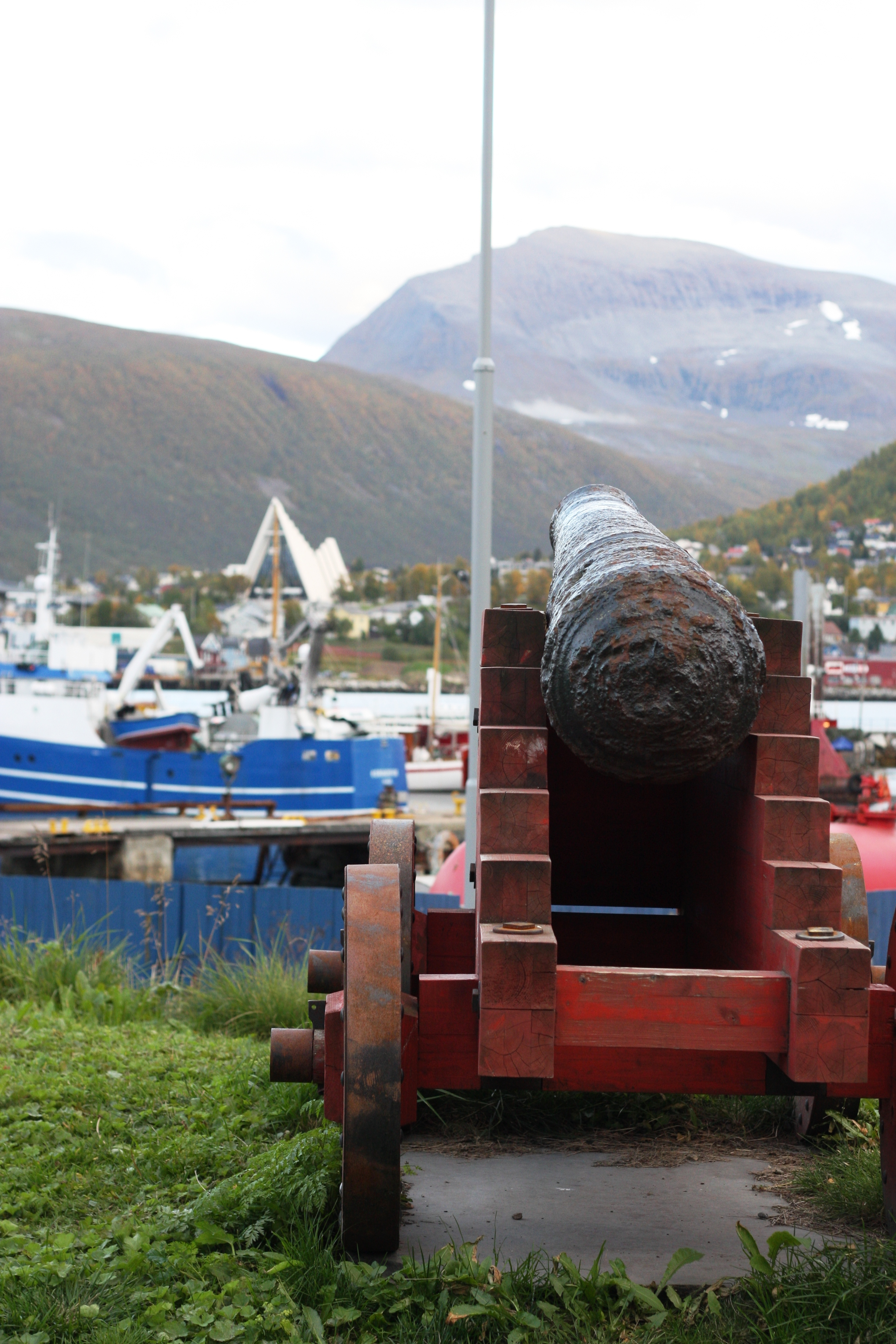 Medieval fortification in Tromsö, Norway.